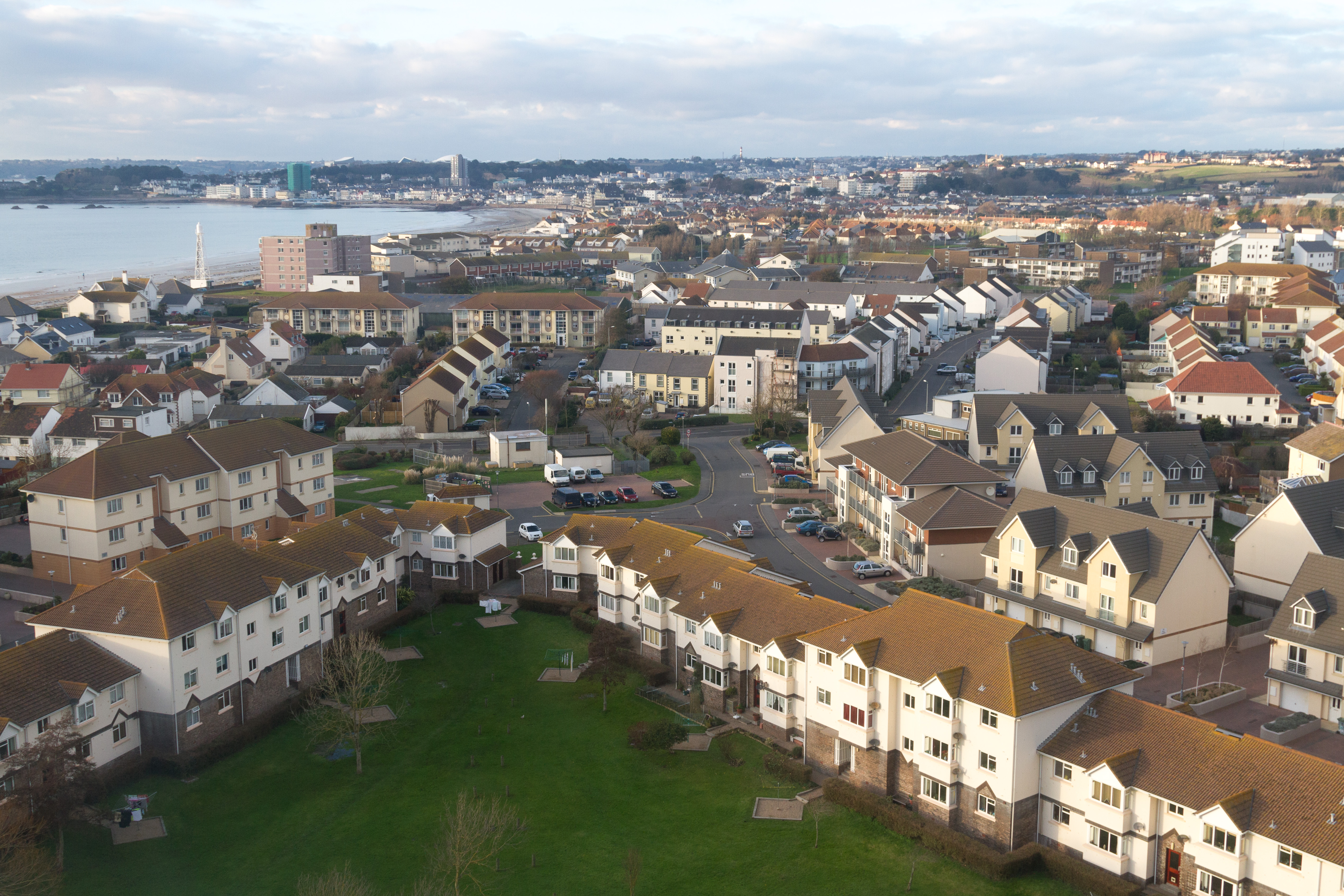 View from Le Marais tower block looking north-west across St Clement towards St Helier in Jersey.